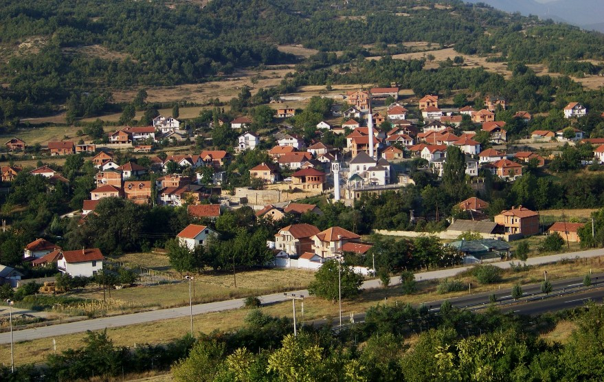 The village of Arnakija in Saraj Municipality, Skopje, Macedonia.